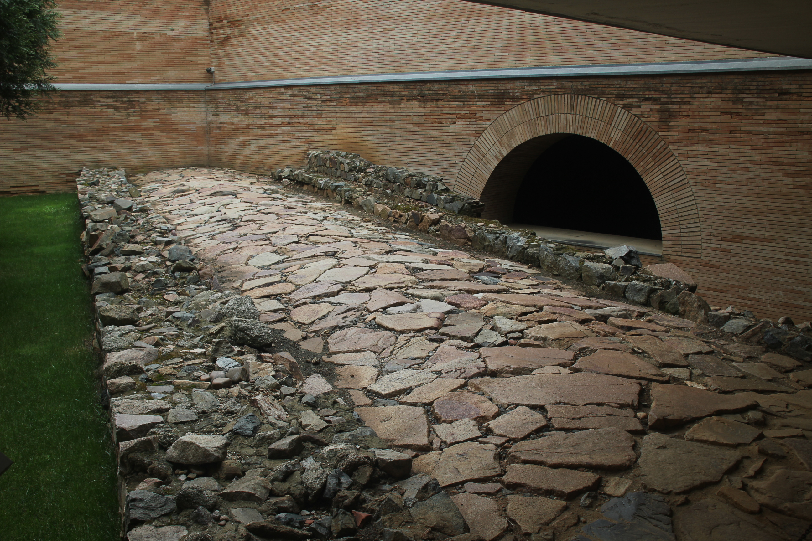 Reconstruction of a roman road in The Museum of Roman Art